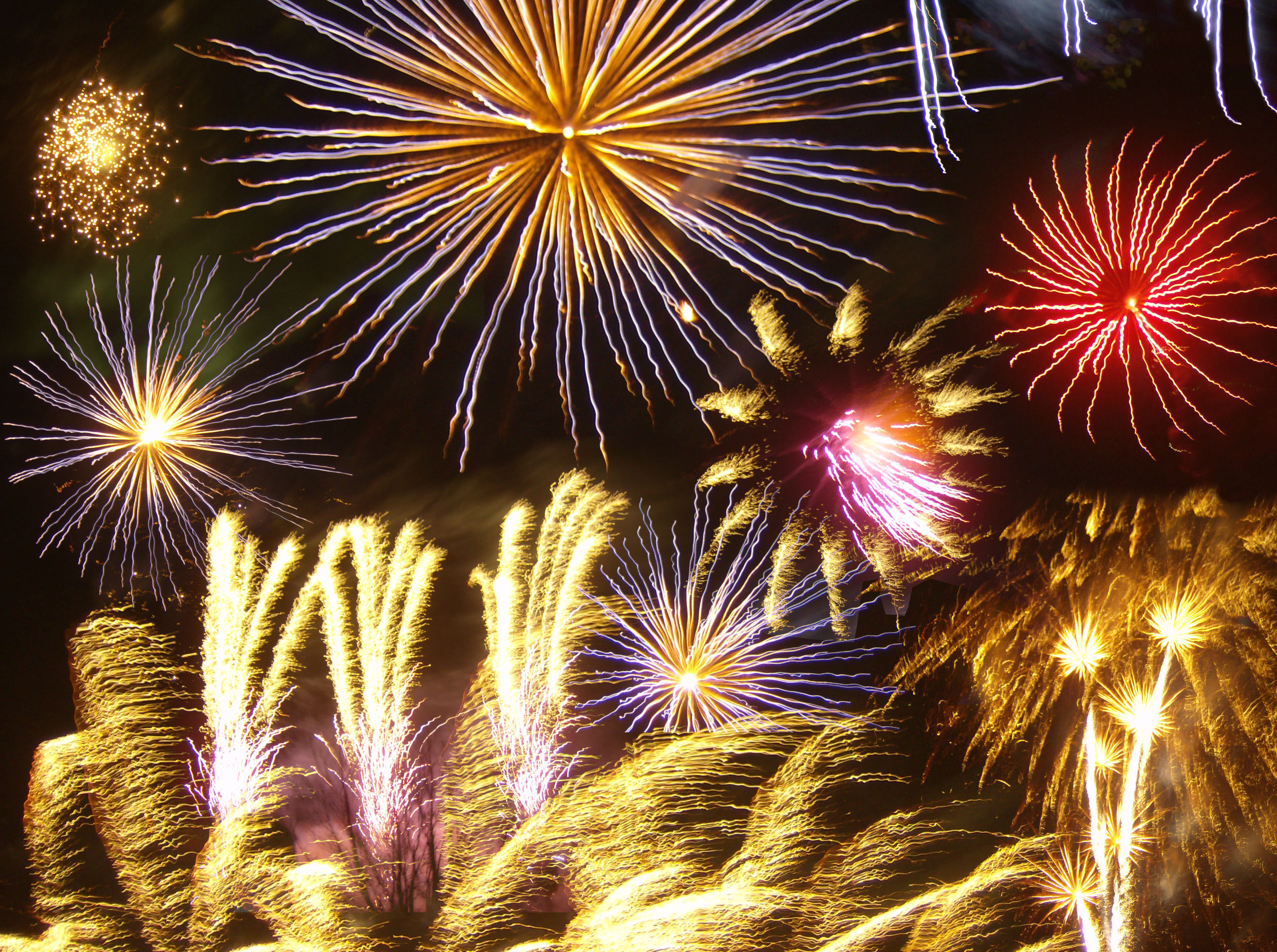 A photomontage of fireworks from a Guy Fawkes Night display at Roundwood Park in Harlesden, London. Eight seperate images were merged together into one photo.